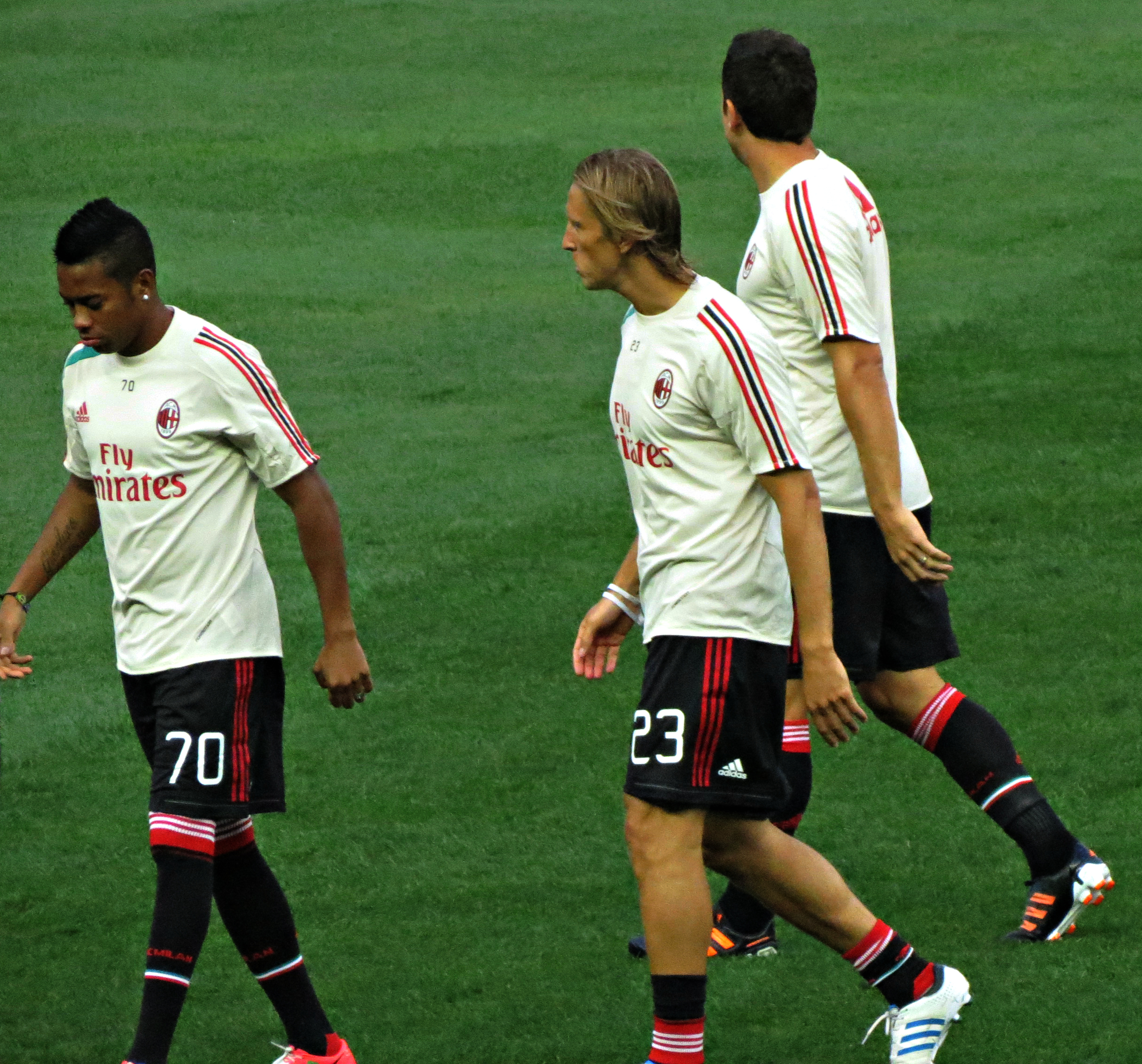 Robinho and Massimo Ambrosini at Yankee Stadium.